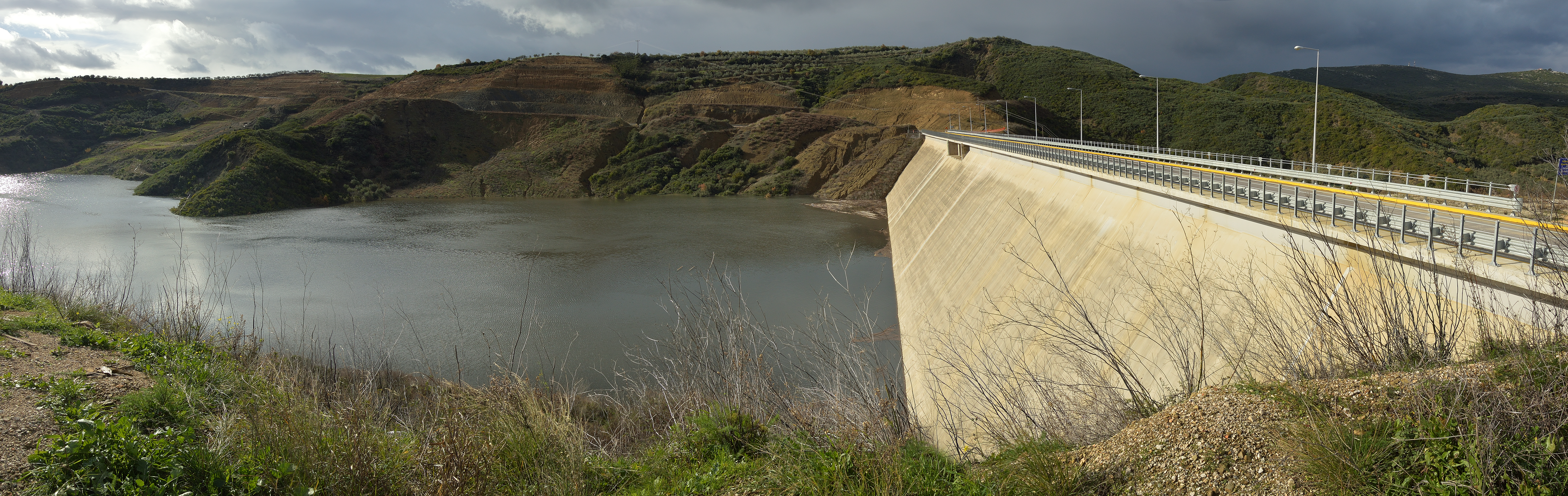 Christianoupolis' Lake is made by the construction of a dam in the flow of "Filiatrino" river, but it also recieves water from much smaller water streams coming from the same catchment. The purpose of this creation is to irrigate water and control the floods of the river. There are 25 such lakes in Greece. The usefulness of artificial lakes is invaluable.